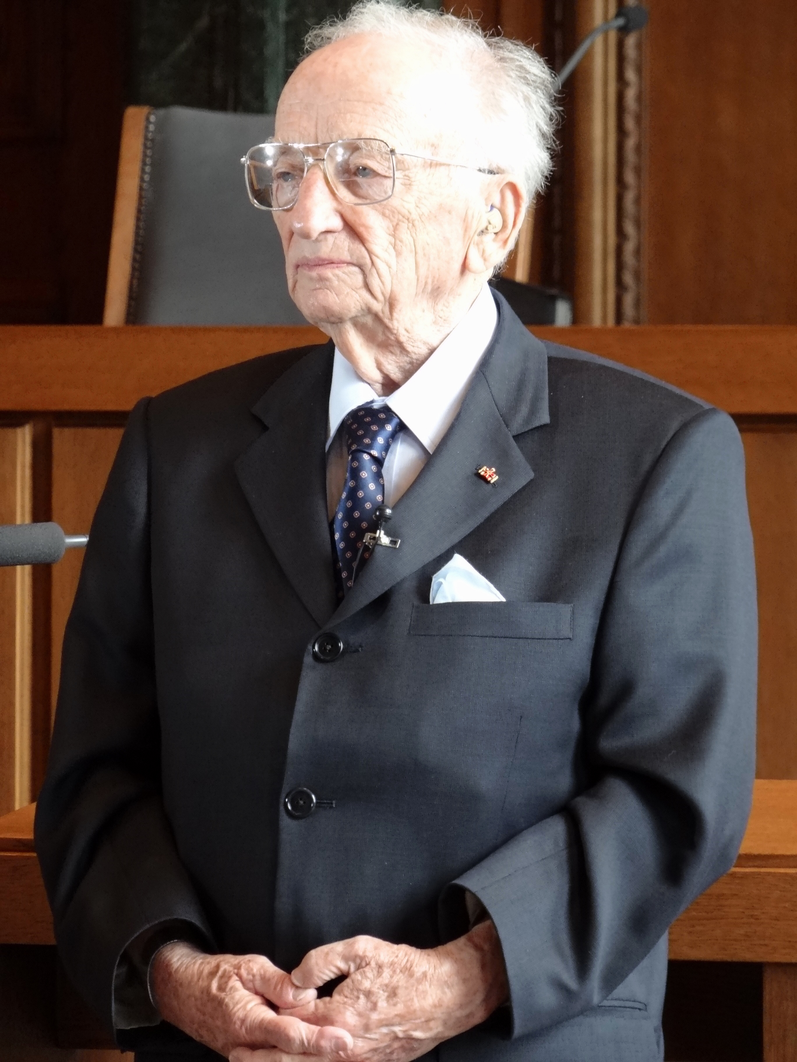 Benjamin Ferencz - Chief Prosecutor in 1947 Einsatzgruppen Trial - In Courtroom 600 Where Nuremberg Trials Were Held - Palace of Justice - Nuremberg-Nurnberg - Germany - 03